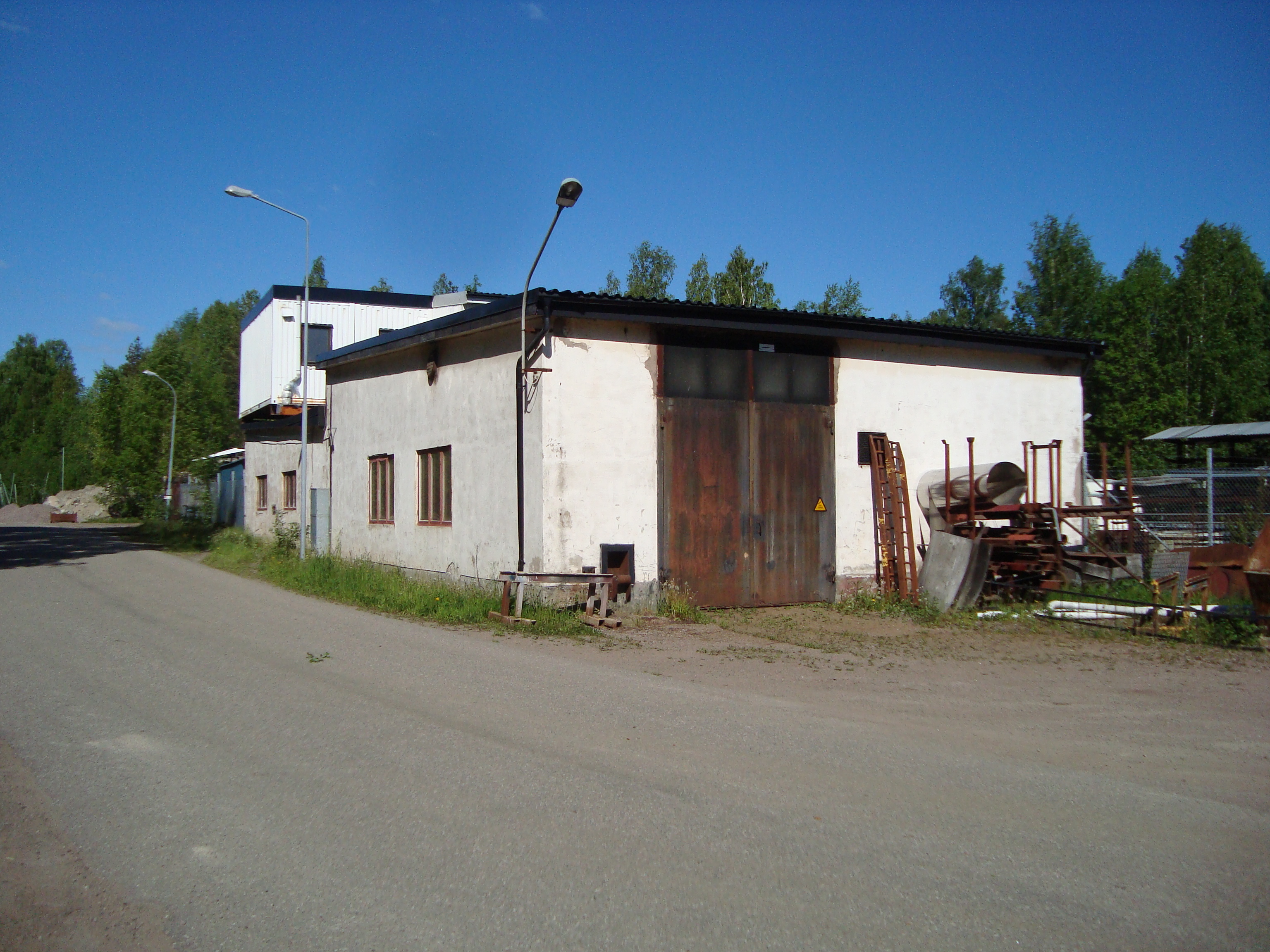 Industrial area around old iron mine Nyängsgruvan, Hofors Municipality, Sweden.